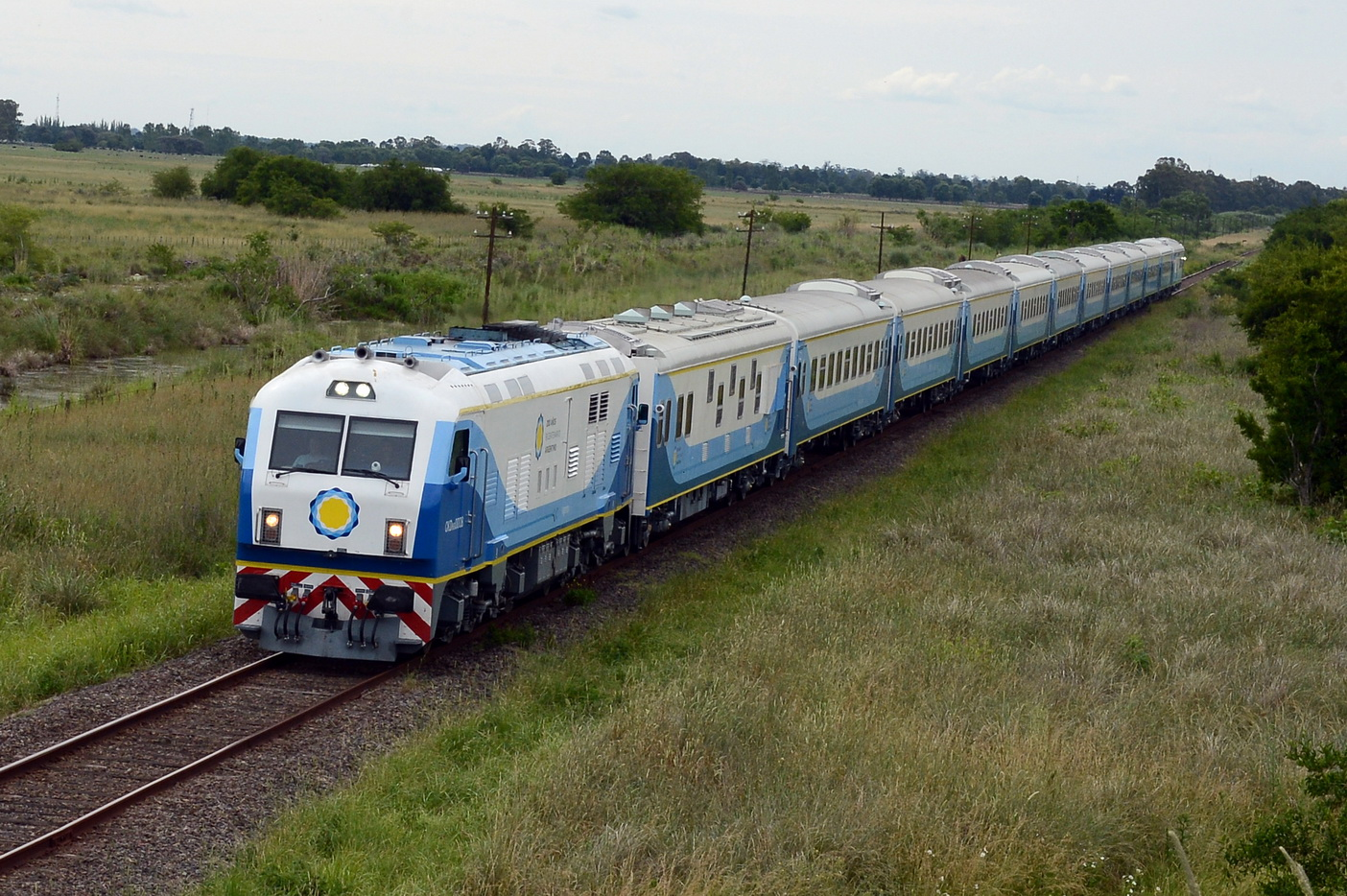 CNR locomotive on the General Roca Railway